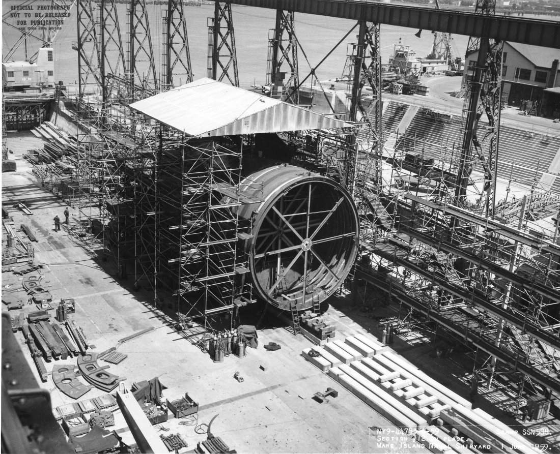 Hull section #12 on the nuclear attack submarine Scamp (SSN-588) on the building ways at Mare Island Naval Shipyard on 1 July 1959.